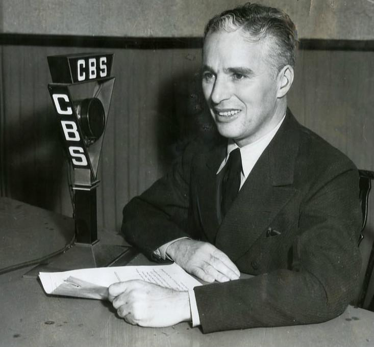 Publicity photo of Charlie Chaplin on CBS radio, 1933. This photo was produced prior to 1978 and has no copyright markings. It can be dated by the appearance of Chaplin and by the microphone he used--this style was circa 1930s for CBS. It was created for distribution to the media and to attract attention and publicity for the personality pictured and the network. This appears to be the first time the public heard Chaplin's voice as he had not yet appeared in talking movies.